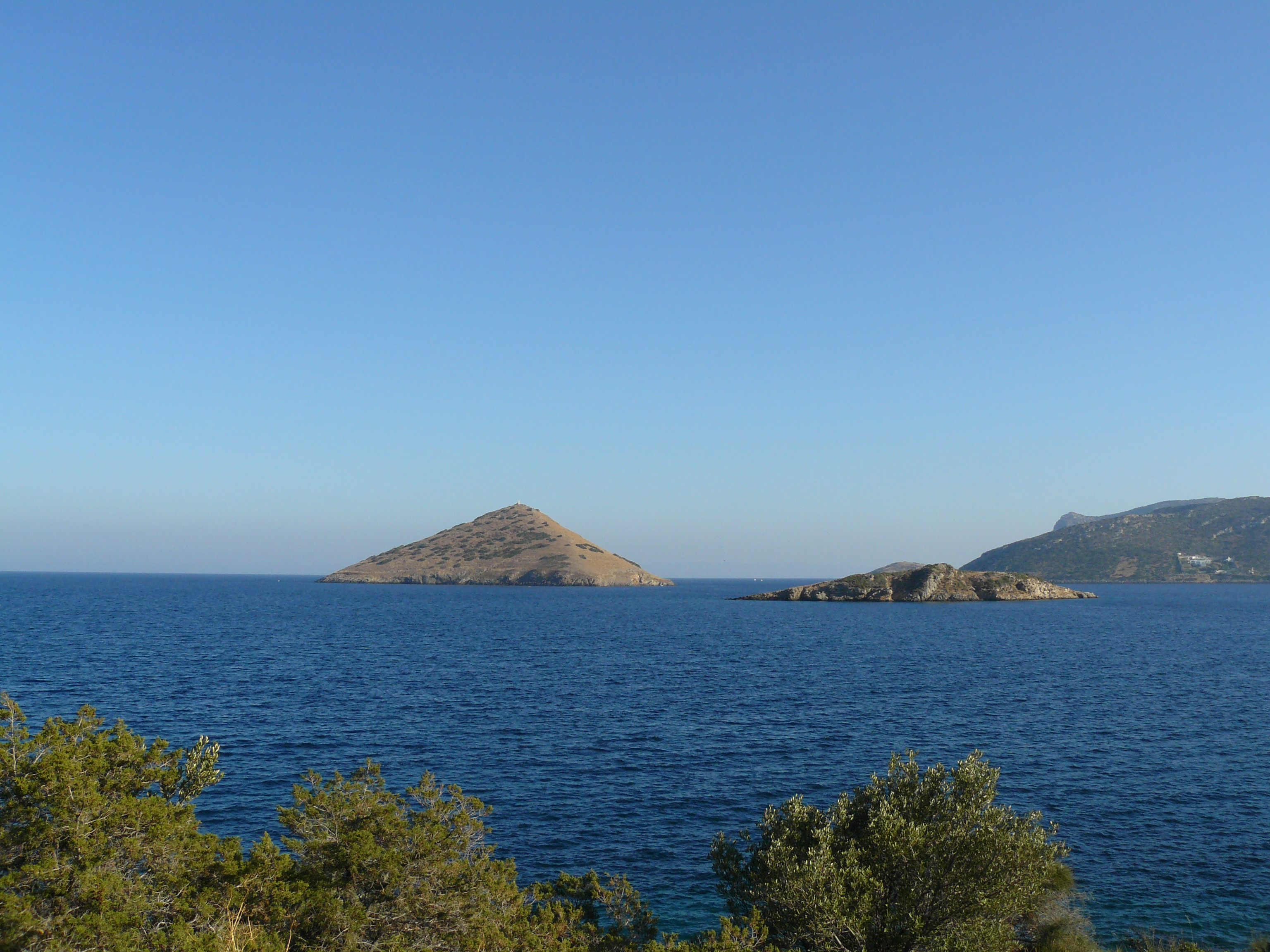 Raftis Island (left) and Raftipoula (right), bay of Porto Rafti